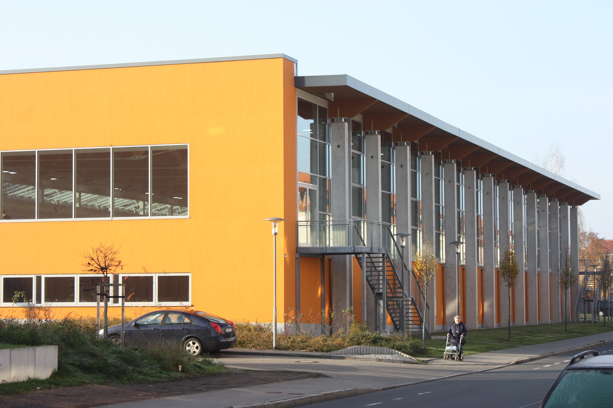 Halle (Saale),the olympic base